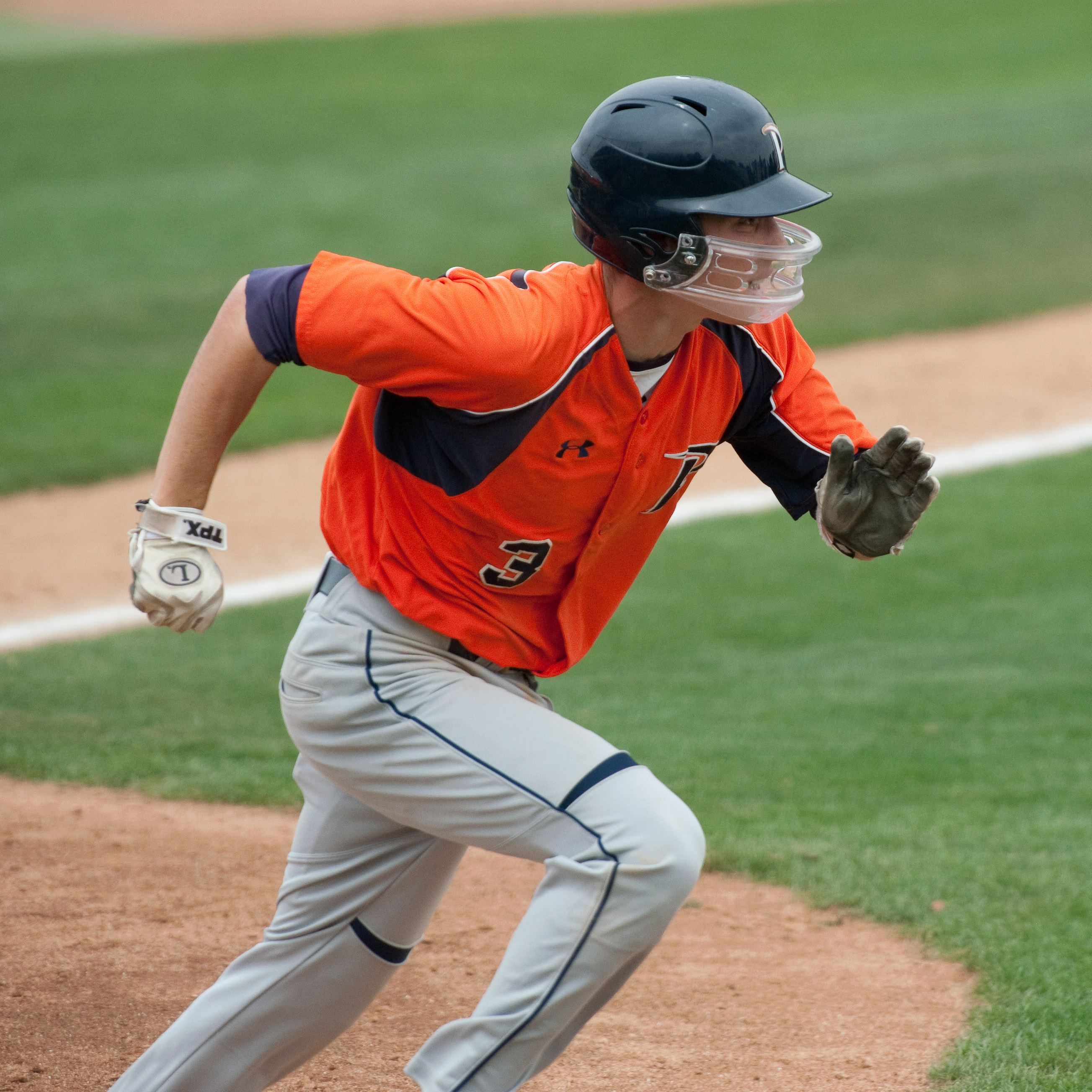 Zach Vincej with the Pepperdine Waves baseball team in May of 2010